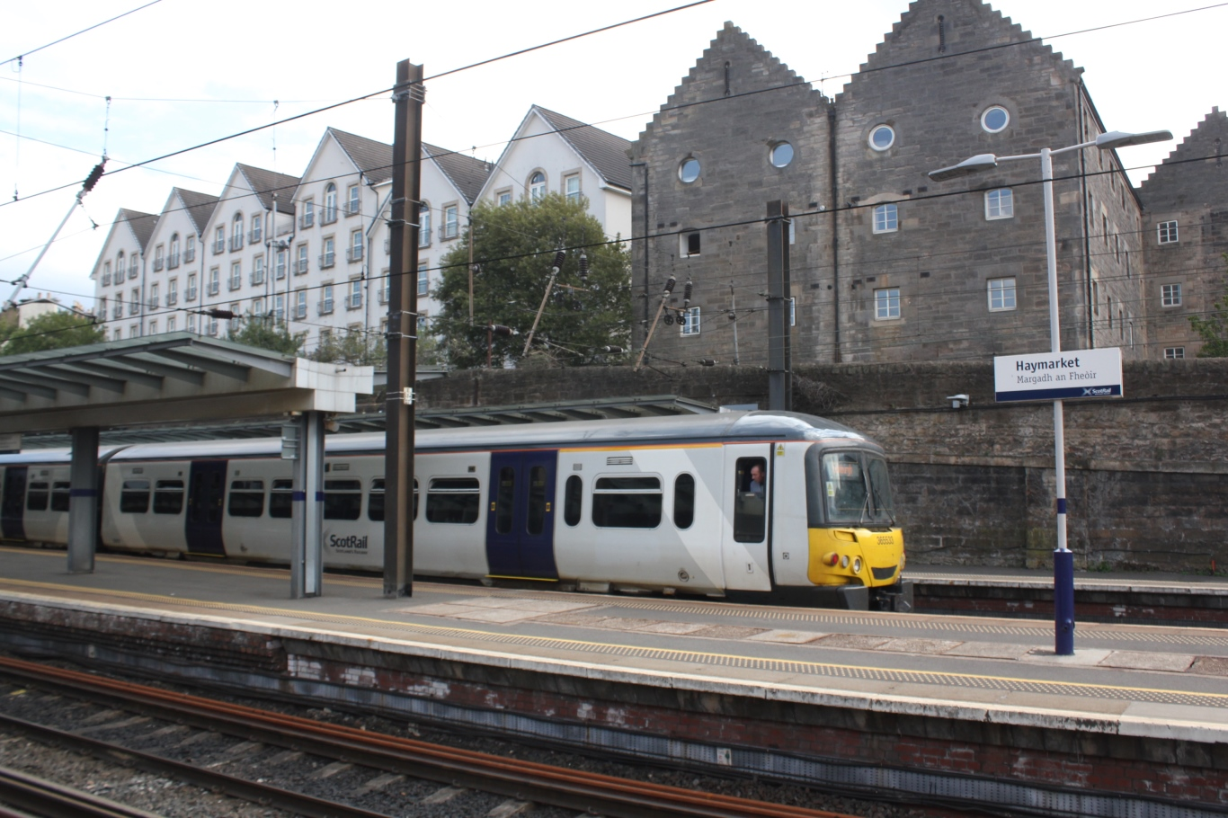 An Abellio ScotRail class 365 'happy Train' 365533 calls at Haymarket on its way into Edinburgh. These electric multiple units have been leased as a short-term measure until new class 385 units can be put into service.